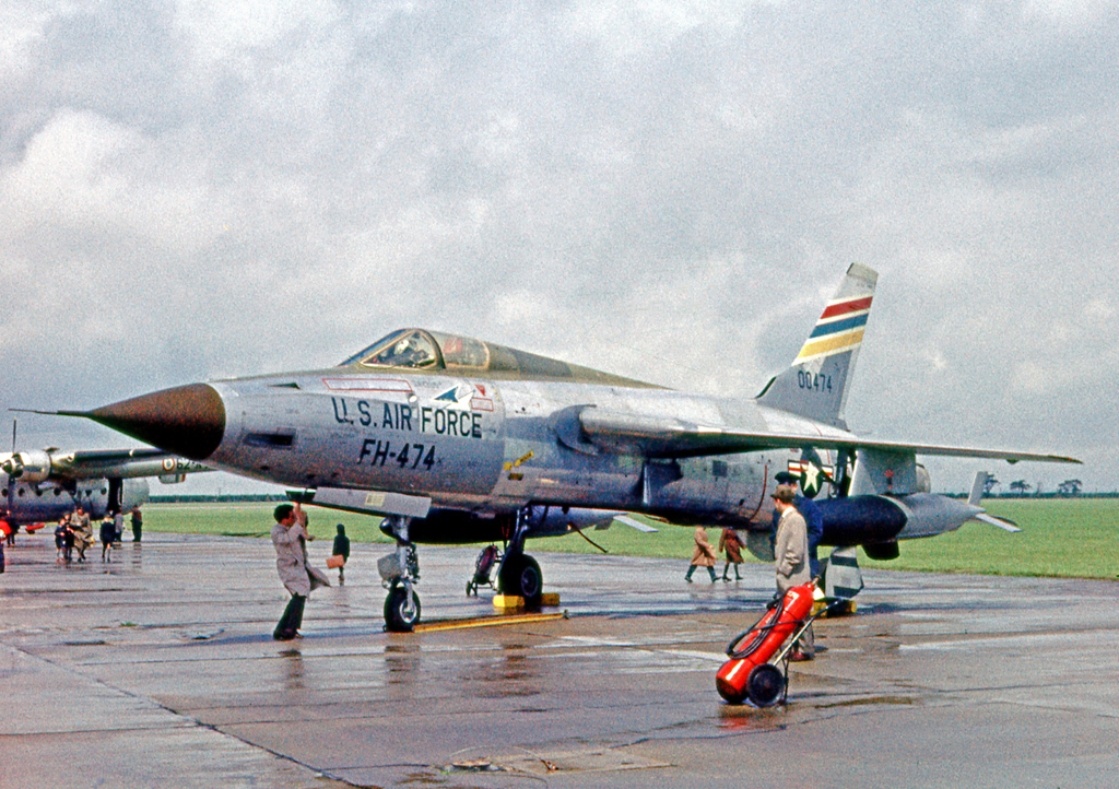 A U.S. Air Force Republic F-105D-10-RE Thunderchief (s/n 60-0474) from the 36th Tactical Fighter Wing at Bitburg Air Base, Germany, at RAF Sculthorpe, Norfolk (UK), in 1962. This aircraft was written off on 14 January 1964 after it crashed during landing approach at Bitburg. The pilot survived.